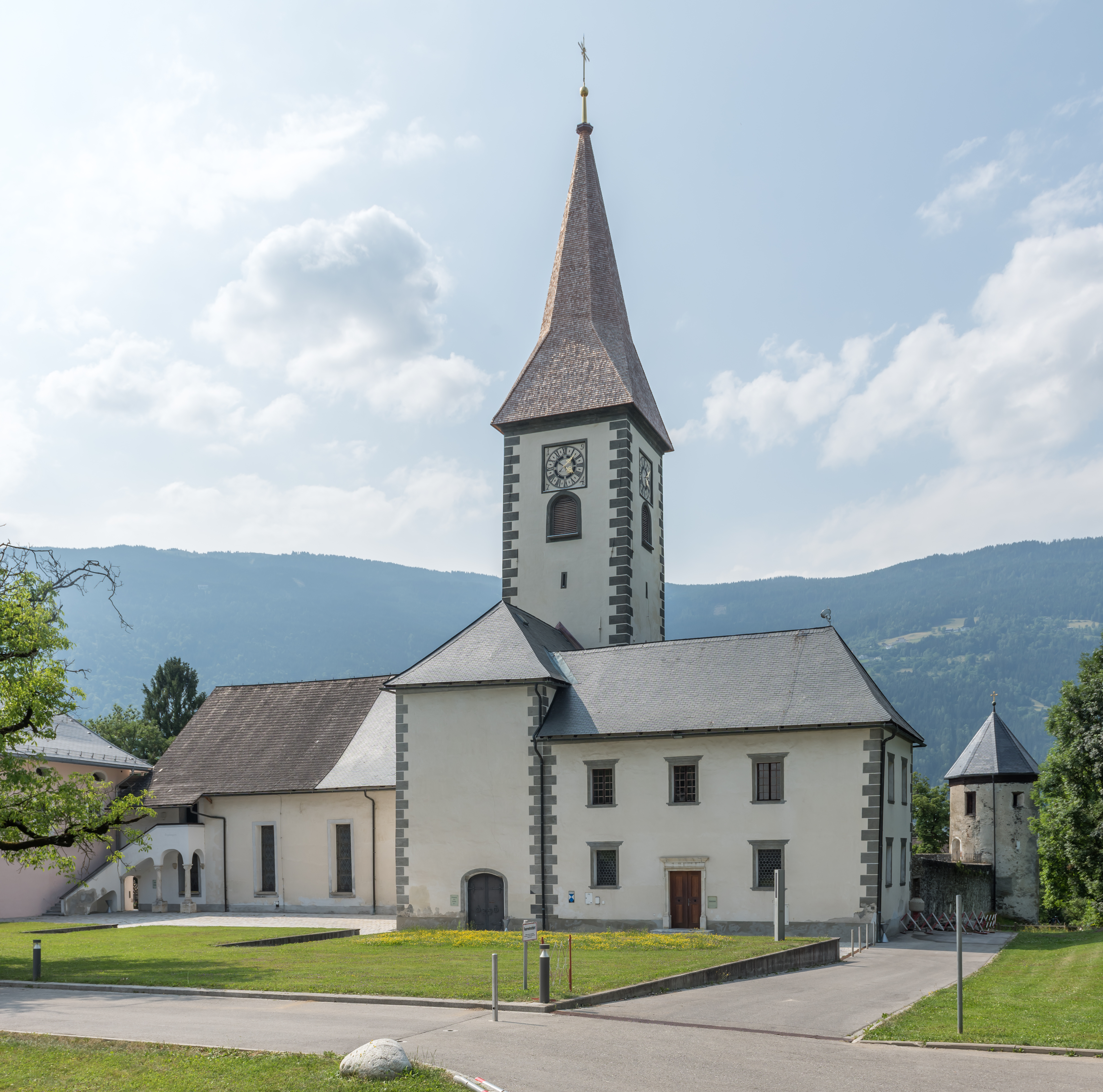 Parish church Assumption of Mary with sacristy in Ossiach #1, municipality Ossiach, district Feldkirchen, Carinthia, Austria, EU